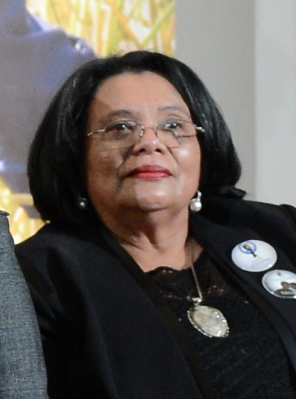 Julieta Castellanos of Honduras at the U.S. Department of State in Washington, D.C. on March 8, 2013 receiving an International Women of Courage Award. [Public Domain]